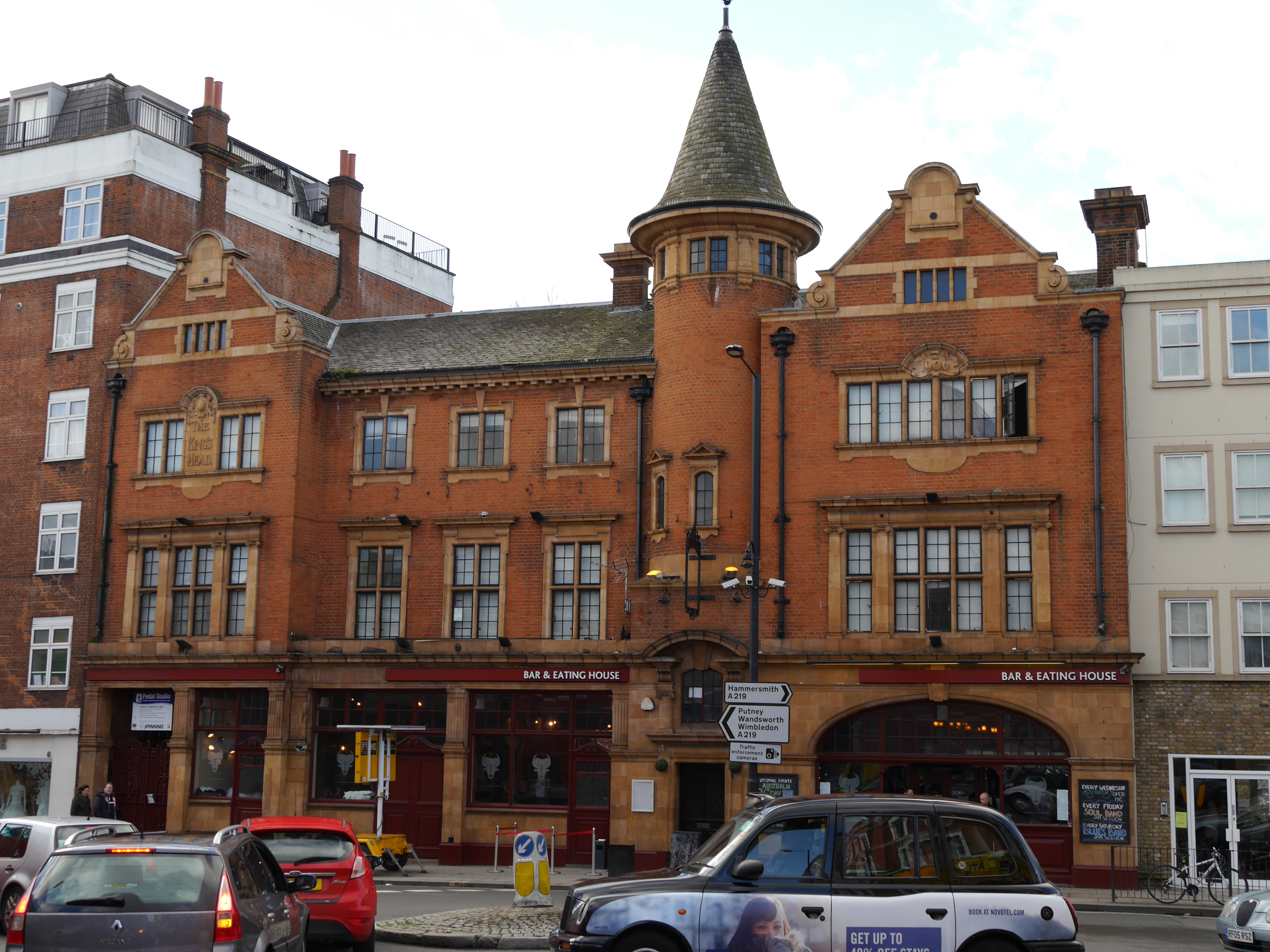 King's Head, Fulham, 14 January 2014